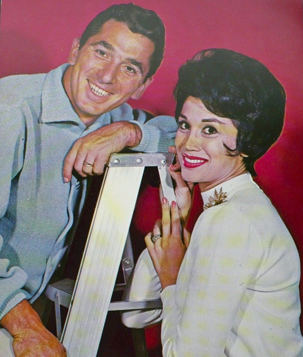 Postcard of Roberta Linn and Freddie Bell who were appearing at the Las Vegas hotel the Sahara. Two copies of the card are included because one has some edges hidden by a ruler-this is to show there are no copyright marks. The item has no copyright markings on it as can be seen in the links above.